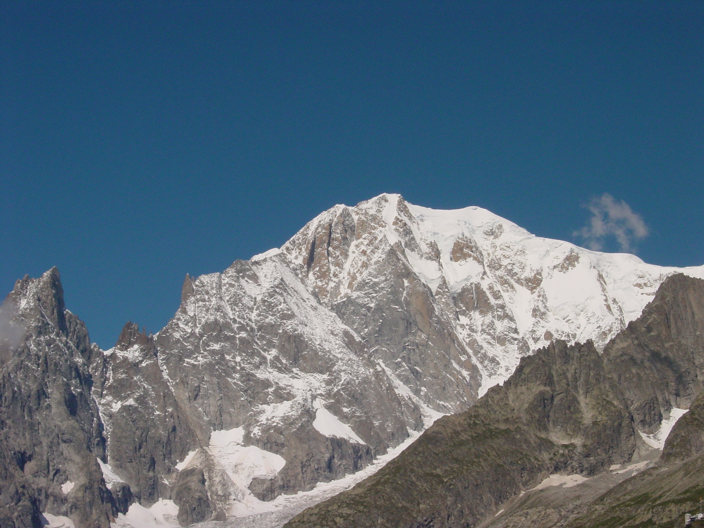 View of Mont Blanc, Aosta Valley